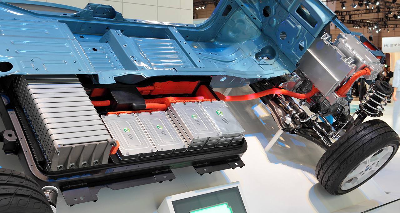 Nissan Leaf at the 2009 Tokyo Motor Show.